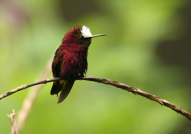 A male Snowcap (Microchera albocoronata), at Tapir Lodge, near Braulio Carillo NP, Costa Rica, 9 July 2008